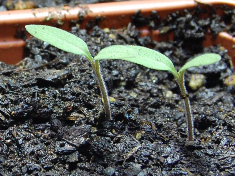 Germinating tomatos, 7 days after planting seeds, in an indoor garden under a 400 watt metal halide lamp. See enwp file Tomato 27 days from planting seeds.jpg for same plant 20 days later.